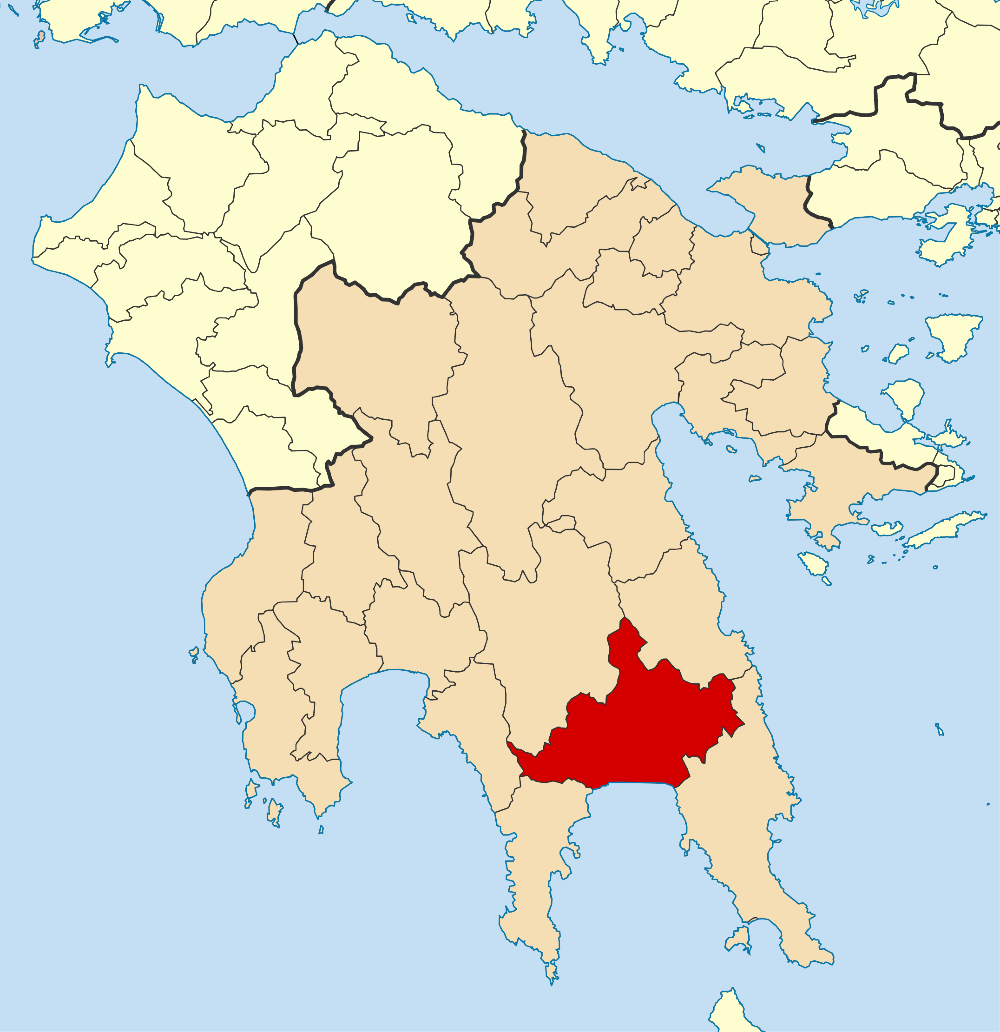 Locator map for Evrotas municipality in Greek region Peloponnese (2011)